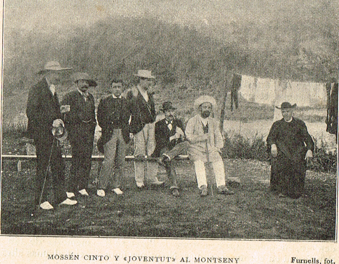 Redactors Joventut